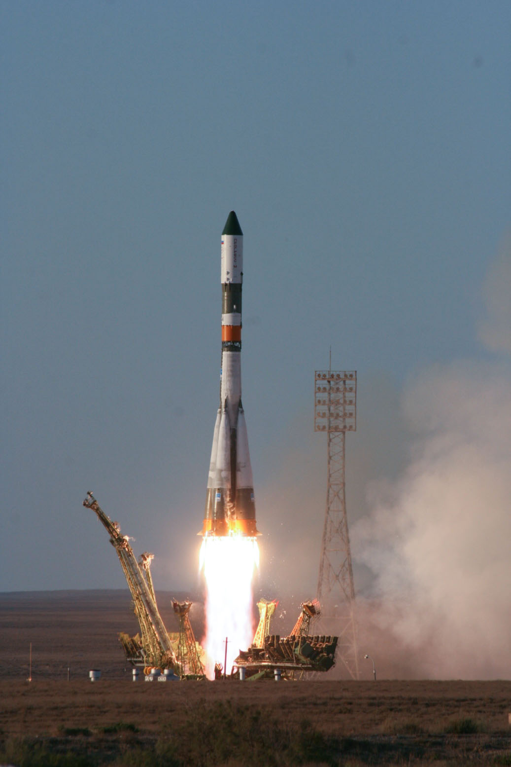 The Progress 43 spacecraft launches from the Baikonur Cosmodrome in Kazakhstan, headed for the International Space Station.